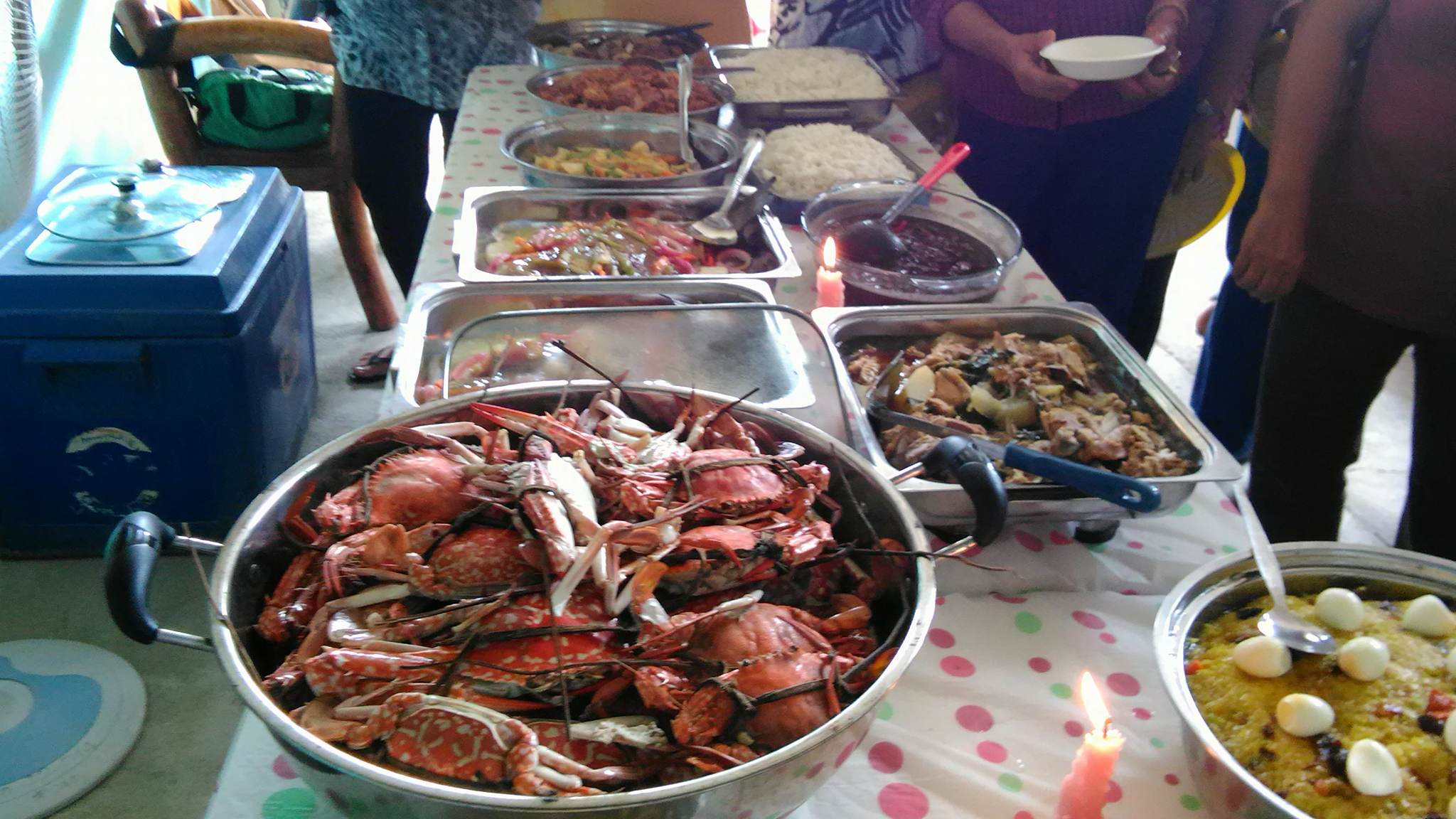 Banate gained its reputation for its abounding harvest of best crabs (Hiligaynon: kasag) in the region. Image: Kasag, Banate Fiesta 24 JUN 2017